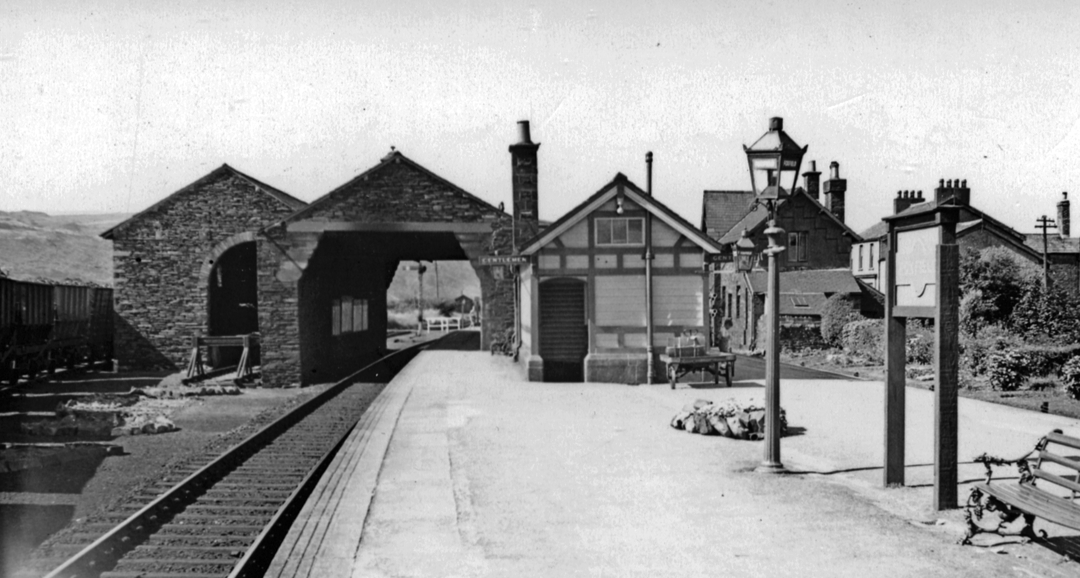 Foxfield station, 1951View NW, towards Barrow-in-Furness and Whitehaven, also Coniston by a branch curving to the right beyond the station. This is the ex-Furness Railway main line from Carnforth, the Coniston branch being closed in April 1962.